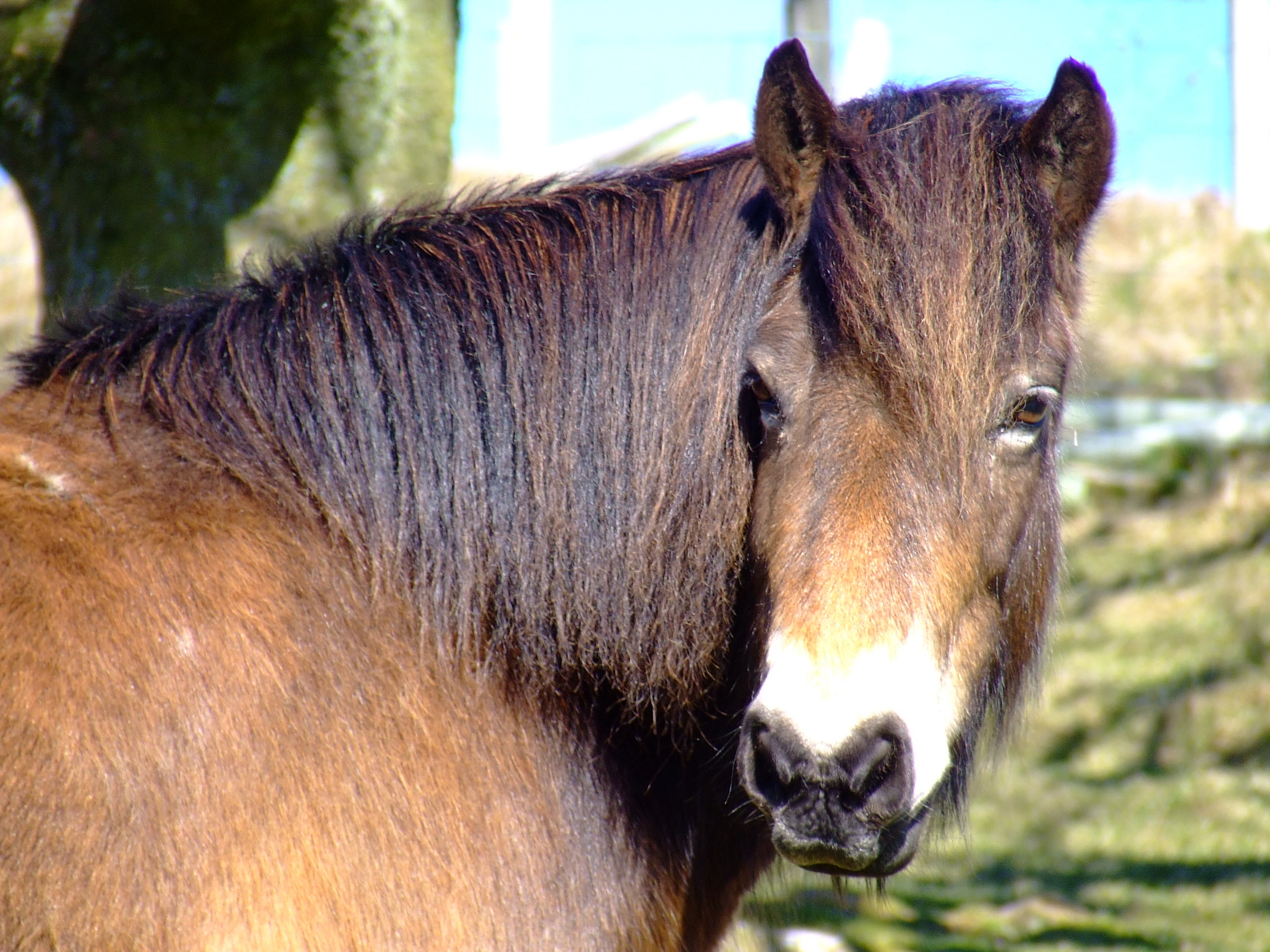 Feral horse in the Pentland Hills. Taken with a Fuji S5200. Purple fringing, a form of chromatic aberration (see File:Purple fringing.jpg for a closeup).